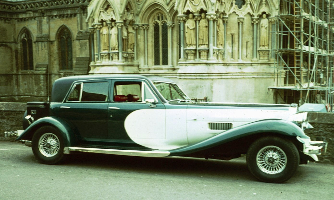 Panther DeVille in profile